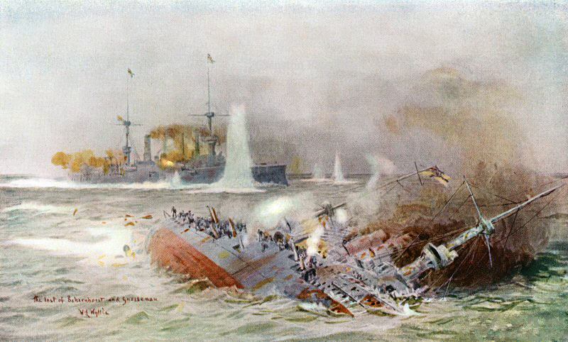 Battle of the Falkland Islands, 1914. Scharnhorst rolls over and sinks while Gneisenau continues to fight.